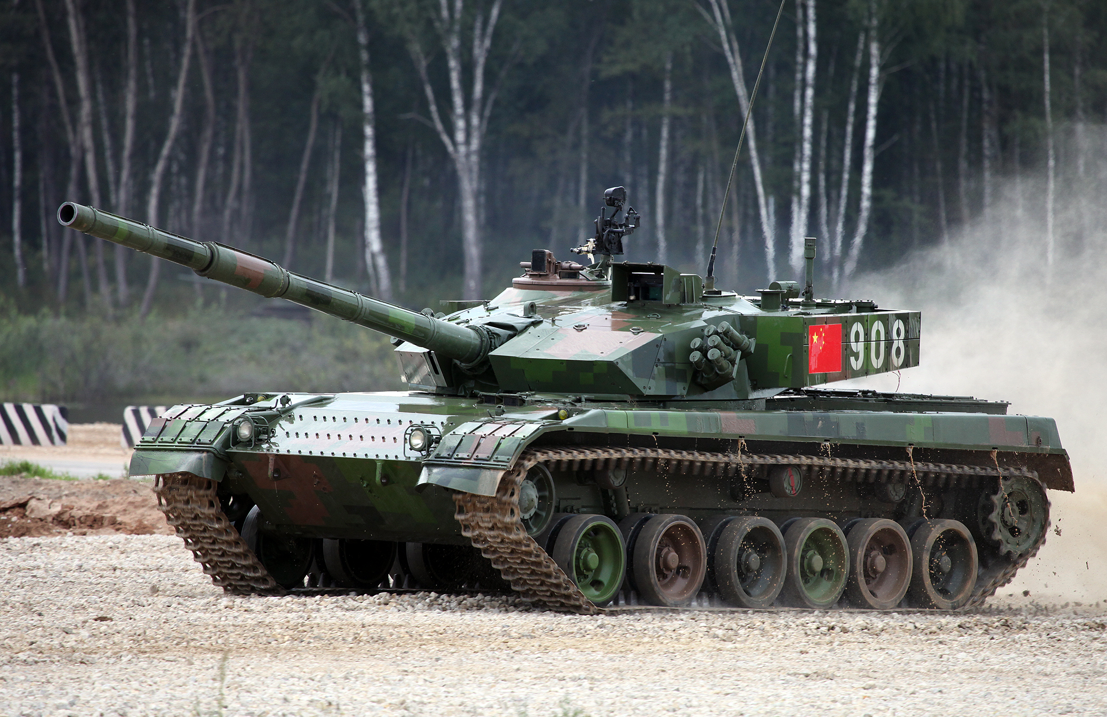 Type 96A1